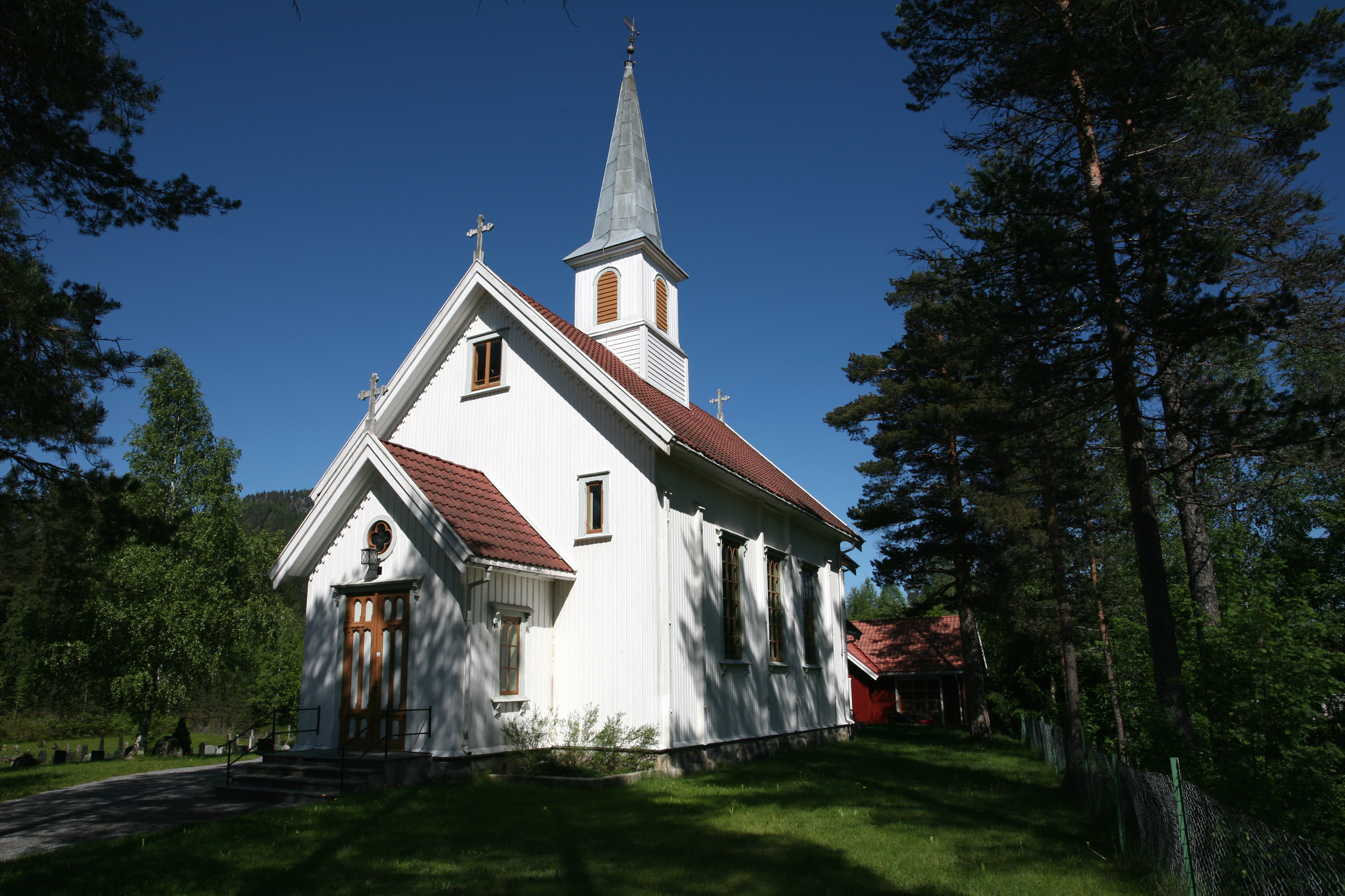 Picture of Jondalen kirke (Buskerud - Norway)